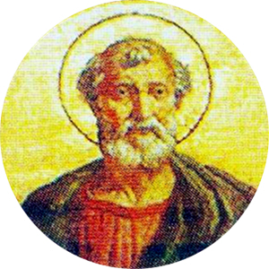 Portrait of Pope Sixtus I in the Basilica of Saint Paul Outside the Walls, Rome